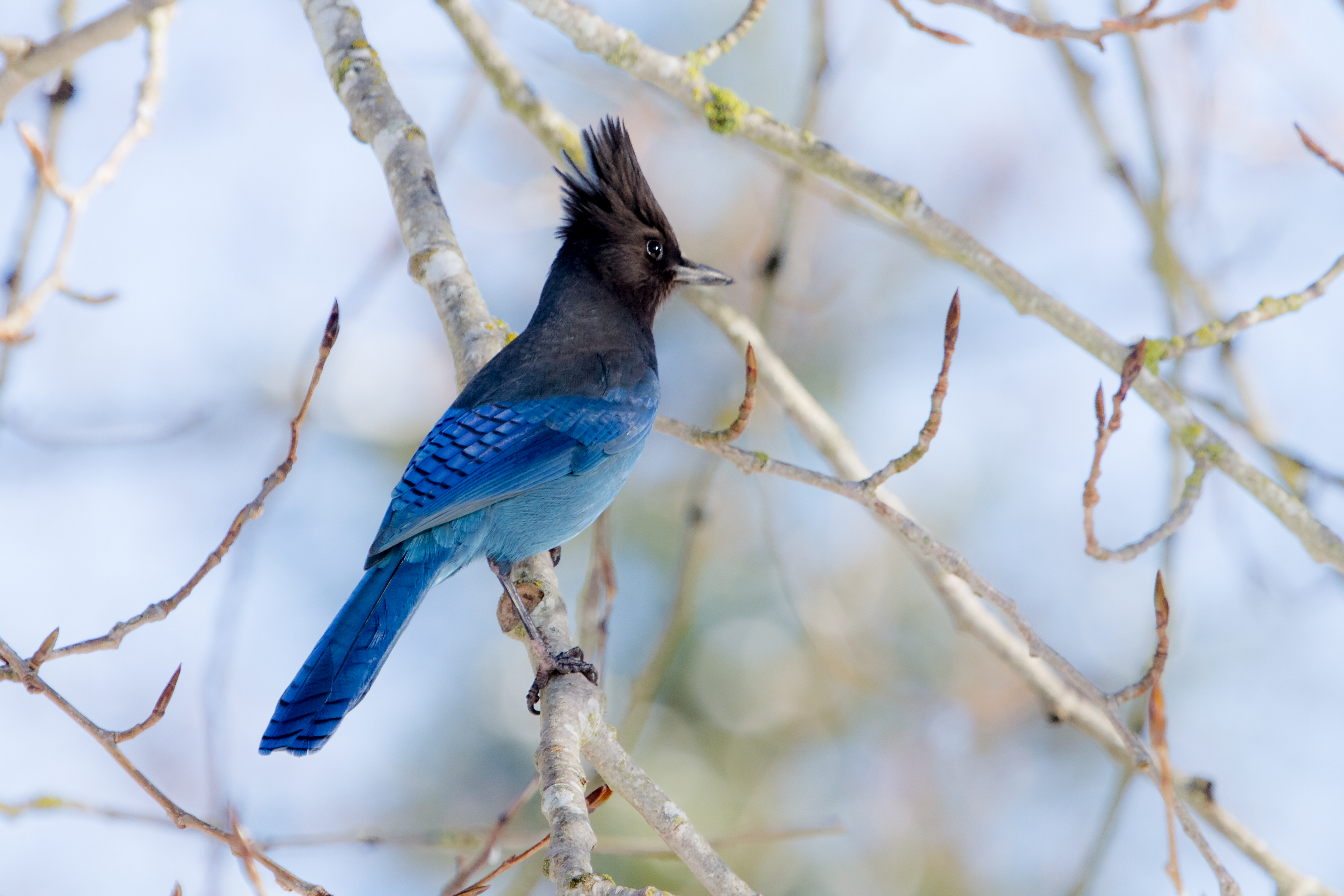 Cyanocitta stelleri: Steller's Jay